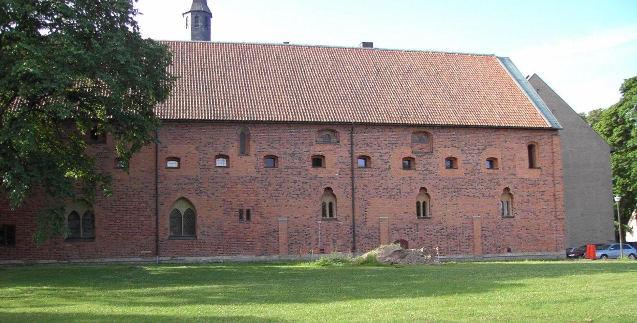 The palace of the House of Bjelbo in Vadstena